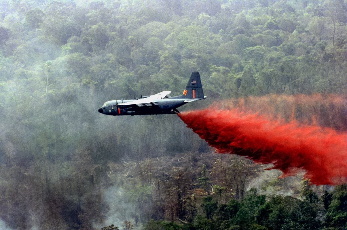 Air Force Reserve aircrews and maintainers stand ready to fight wildfires using C-130 Hercules equipped with modular airborne firefighting systems, similar to this one. The aircraft can drop up to 3000 gallons of retardant covering an area one-quarter of a mile long and 60 feet wide.